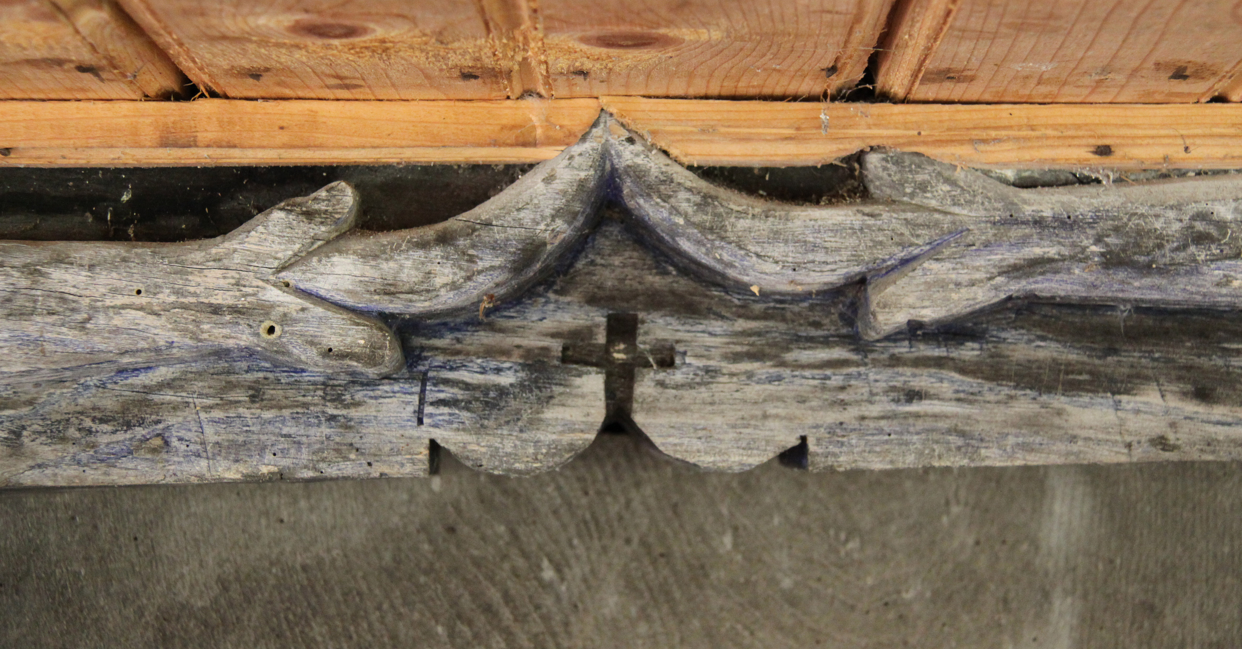 Rugetu-Valea Babei, Vâlcea county, Romania: the wooden church, above the entrance.